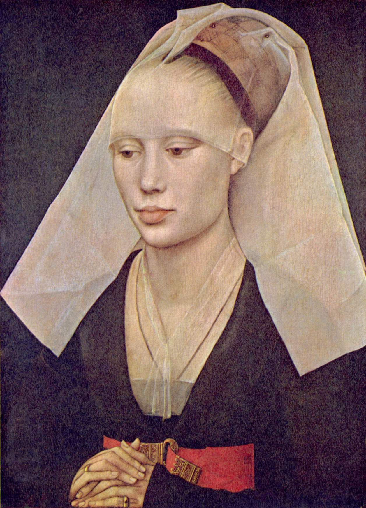 This is an outstanding example of the abstract elegance characteristic of Rogier's late portraits. Although the identity of the sitter is unknown, her air of self–conscious dignity suggests that she is a member of the nobility. Her costume and severely plucked eyebrows and hairline are typical of those favored by highly placed ladies of the Burgundian court. The dress, with its dark bands of fur, almost merges with the background. The composition is built from the geometric shapes that form the lines of the woman's veil, neckline, face and arms, and by the fall of the light that illuminates her face and headdress. Her hands are delicately clasped in prayer.